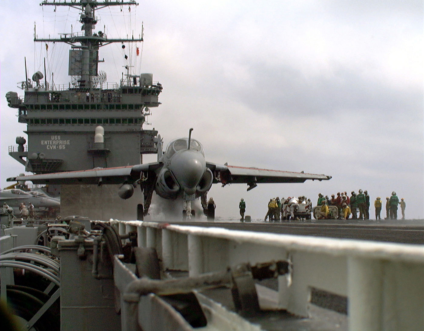 A U.S. Navy Grumman A-6E Intruder aircraft assigned to the Sunday Punchers of attack squadron VA-75 makes ready for launch from the number one catapult, during carrier qualifications aboard the US Navy's nuclear powered aircraft carrier USS ENTERPRISE (CVN 65). Enterprise is participating in Combined Joint Task Force Exercise '96, as part of a multinational force of over 50,000 soldiers, sailors, airman and marines from Canada, Britain and the United States.